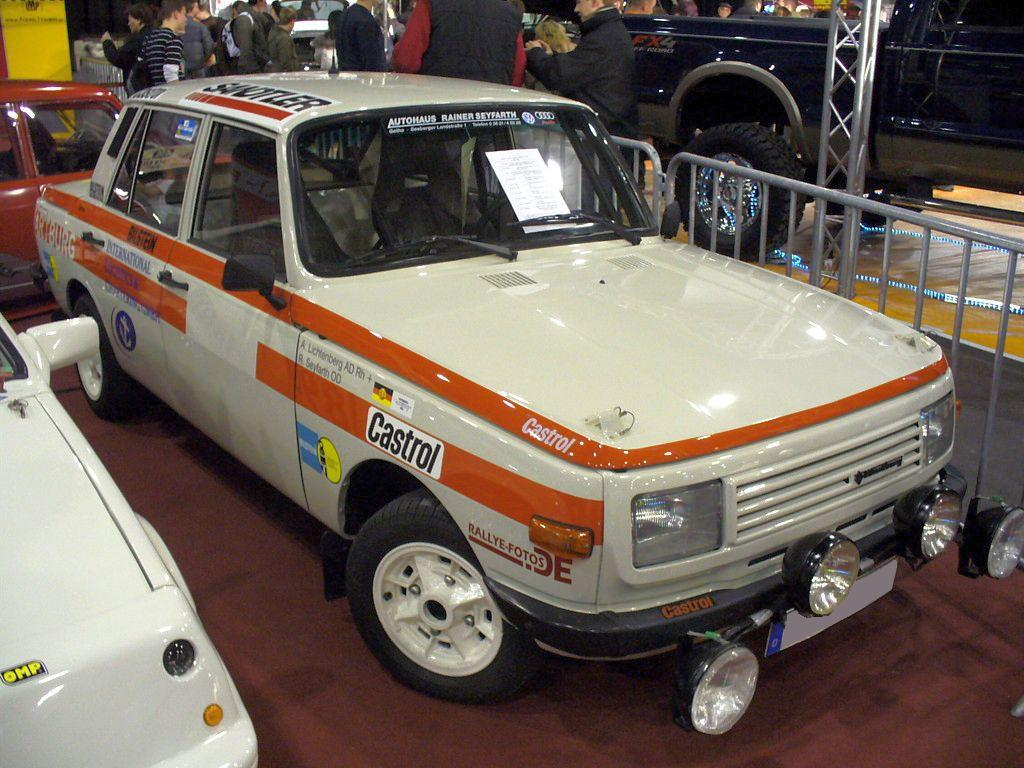 Wartburg 353 Rally